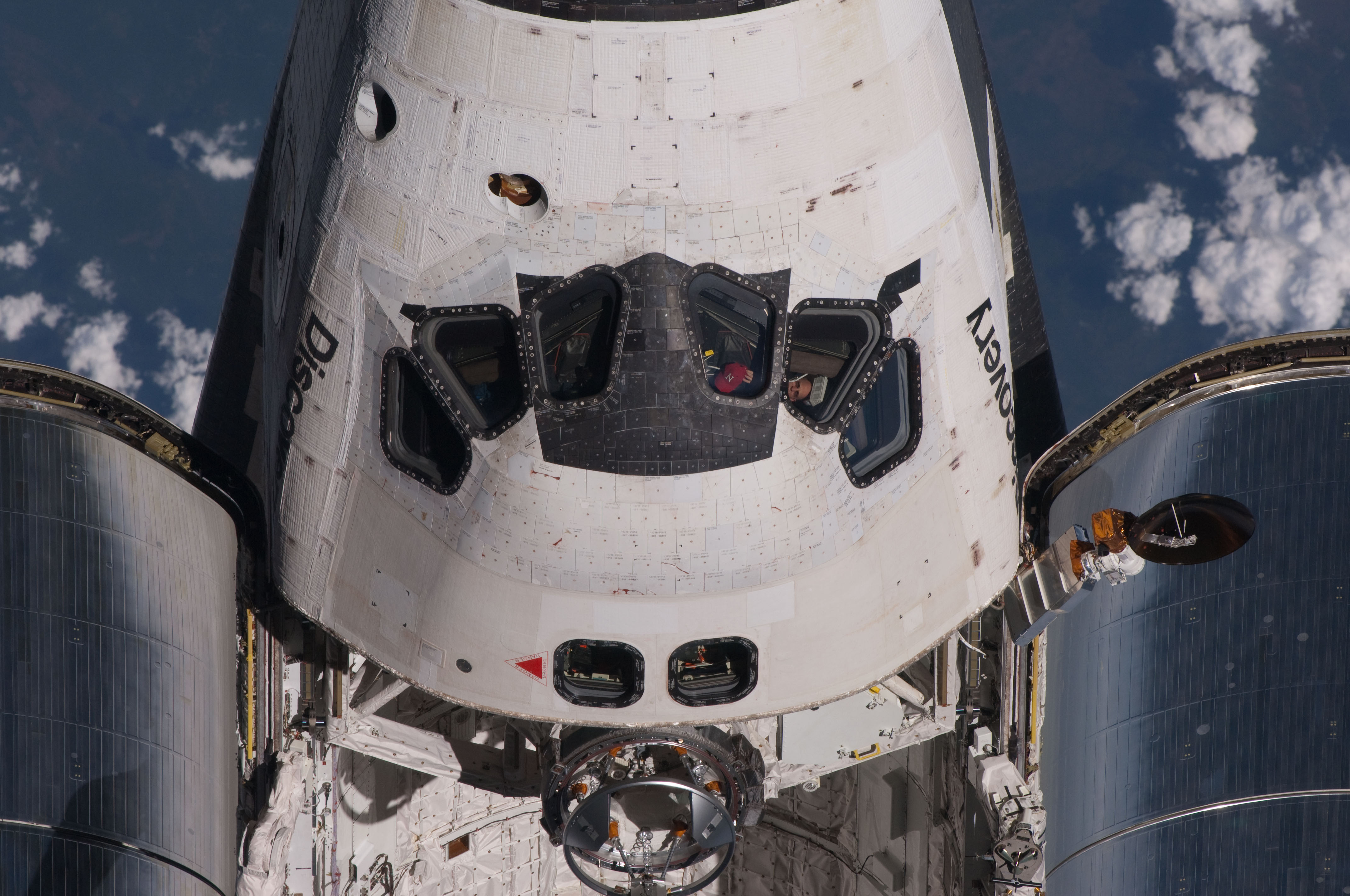 This partial view of the crew cabin and forward payload bay of the space shuttle Discovery was provided by an Expedition 23 crew member during a survey of the approaching vehicle prior to docking with the International Space Station. As part of the survey and part of every mission's activities, the STS-131 Discovery crew performed a back-flip for the rendezvous pitch maneuver (RPM). The image was photographed with a digital still camera, using a 400mm lens at a distance of about 600 feet (180 meters).